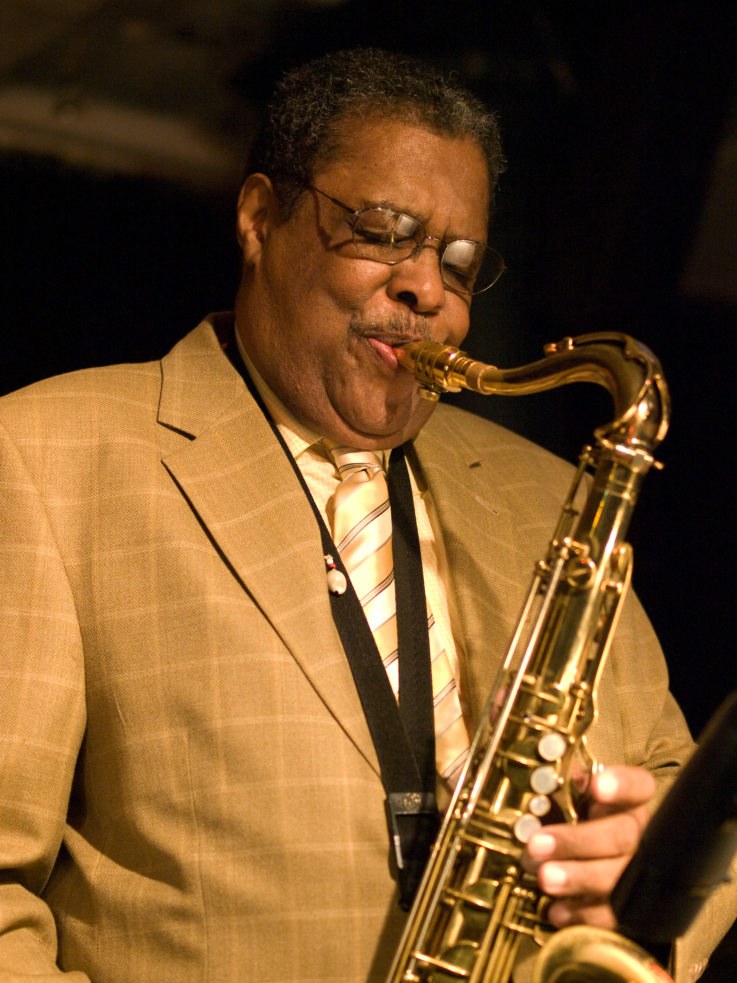 Charles Davis, jazz saxophonist, picture taken in Jazz club "Unterfahrt" in Munich/Germany